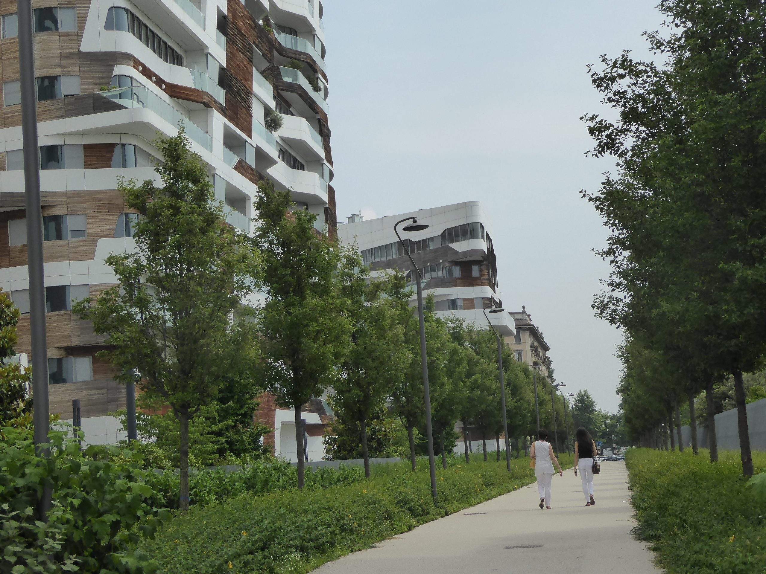 Via Luciano Berio, CityLife, Milan, Italy, May 2018